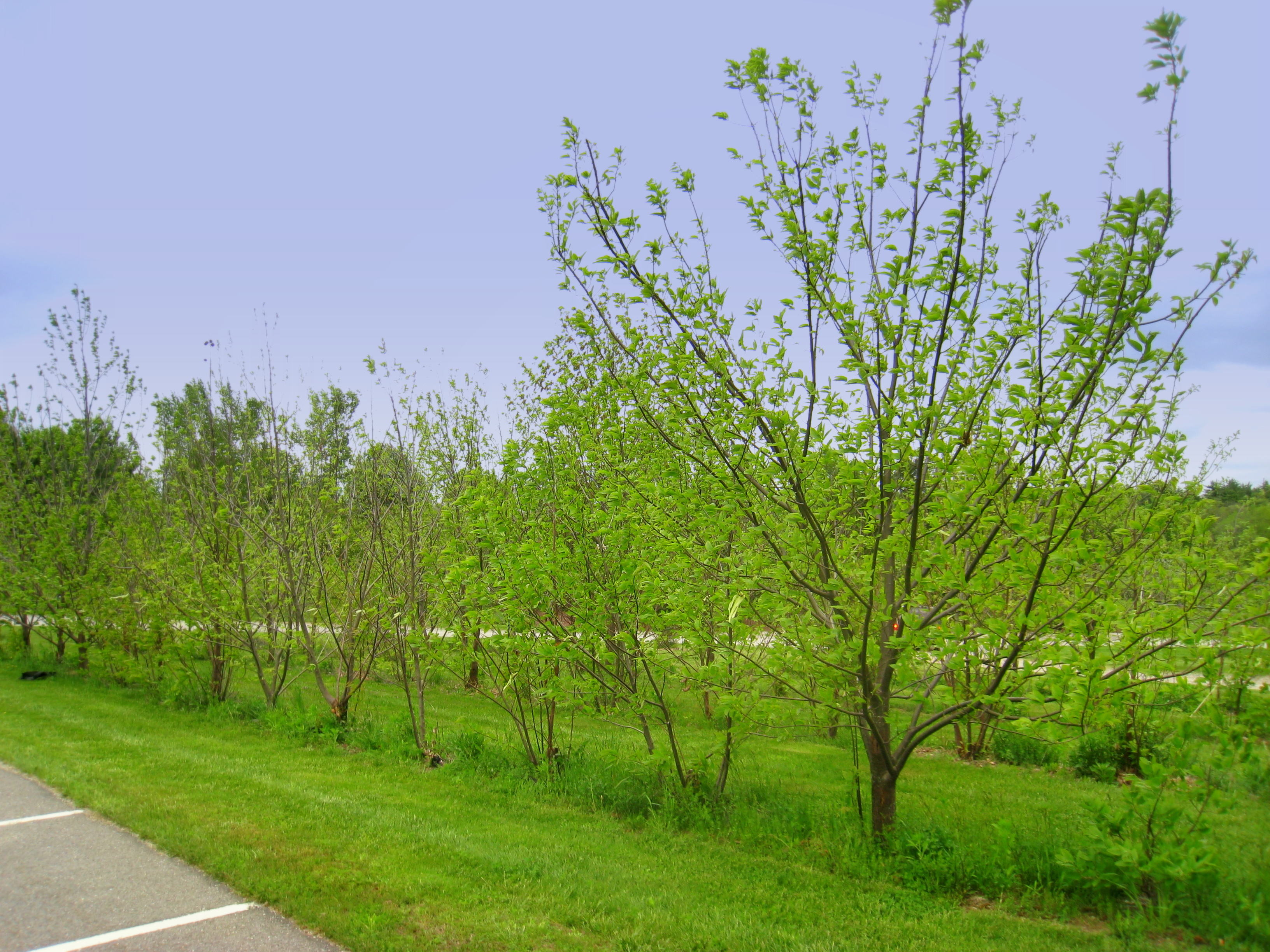 Tower Hill Botanic Garden, Boylston, Massachusetts, USA. Experimental trials of American chestnut trees, maintained in collaboration with the American Chestnut Foundation.